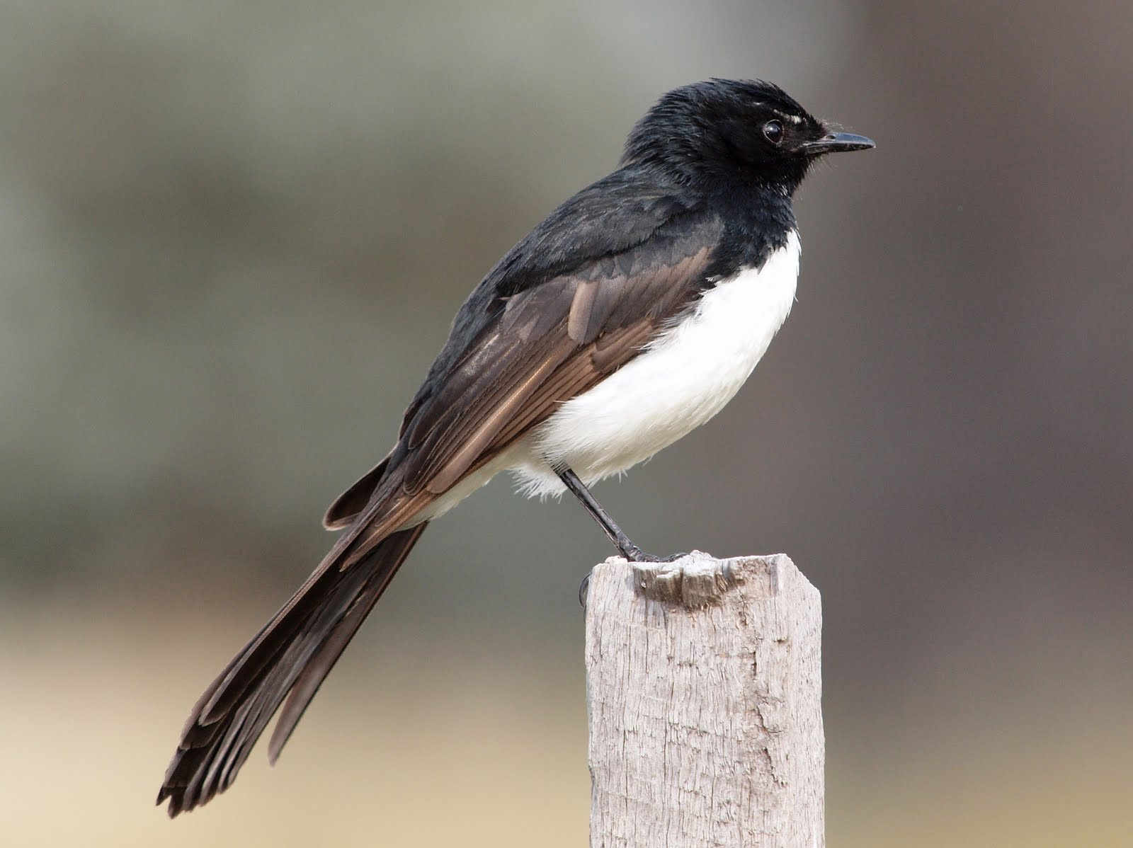 A Willie Wagtail in Canberra, Australia.